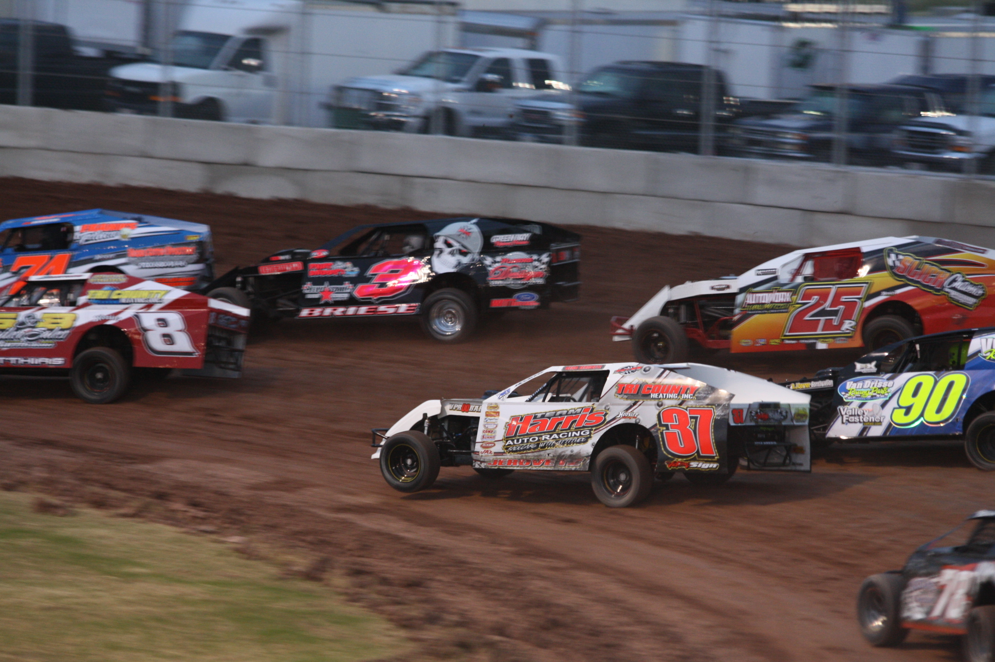 IMCA Modified race cars racing at Luxemburg Speedway (Wisconsin).